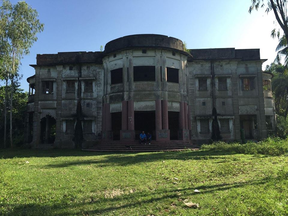 গুনাহারের ঐতিহ্যবাহী সাহেব বাড়ি। বর্তমানে বাড়িটি পরিত্যাক্ত হিসেবে কালের সাক্ষী হয়ে দাঁড়িয়ে রয়েছে। সংস্কারহীনতার অভাবে বাড়িটির বিভিন্ন অংশ ধংসপ্রায় হয়ে পড়েছে। তবে বাড়িটির নান্দনিক কাঠামোগত সৌন্দর্য এবং লোকগাথা সবার মুখেমুখে ছড়িয়ে পরার কারনে এখন এটি স্থানীয় টুরিস্টদের কাছে বেশ জনপ্রিয় হয়ে উঠেছে। গুনাহার ইউনিয়নের প্রত্যন্ত এলাকাতে অবস্থিত এই বাড়িটি বগুড়া জেলার দুপচাঁচিয়া উপজেলাবাসীর কাছে 'সাহেব বাড়ি' হিসেবে সুপরিচিত একটি নাম। এলাকার মানুষের দাবী এই ভগ্নপ্রায় বাড়িটিকে টুরিস্ট প্লেস হিসেবে অনুমোদন দেয়ার মাধ্যমে এর সংস্কারে যথাযথ ব্যবস্থা নিতে কতৃপক্ষ এগিয়ে আসবে। উল্লেখ্য এই বাড়িটির মালিক অবিভক্ত বাংলার এক্সাইজ কমিশনার মরহুম খান বাহাদুর মোতাহার হোসেন খান ১৯৪১ইং সালে নির্মাণ করেন।